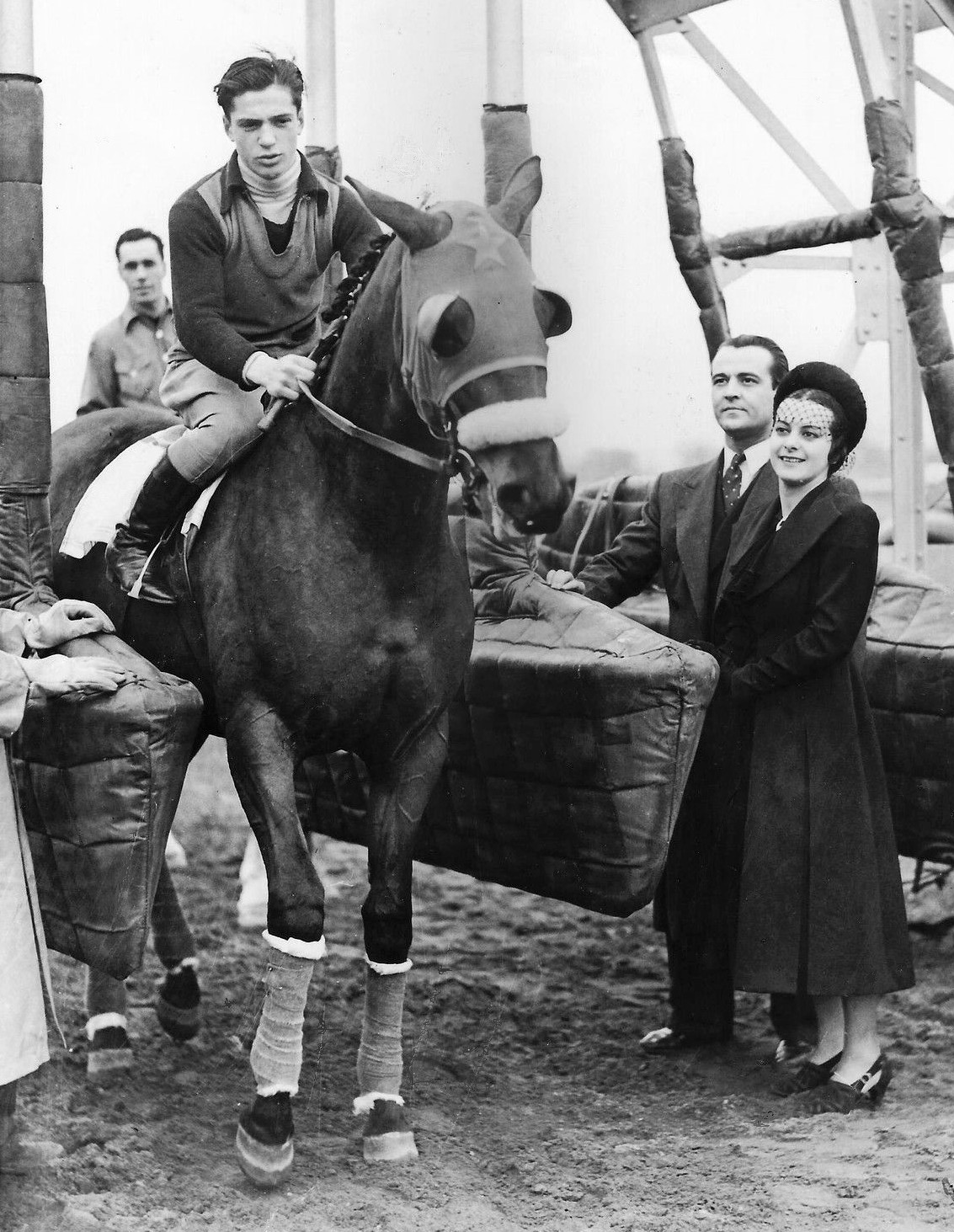 Photo of Veloz and Yolanda at the Belmont Park racetrack in New York with their newly-purchased racehorse, Veolanda. They were at the track for the work out; the horse had yet to be entered in any race at the time of the photo.